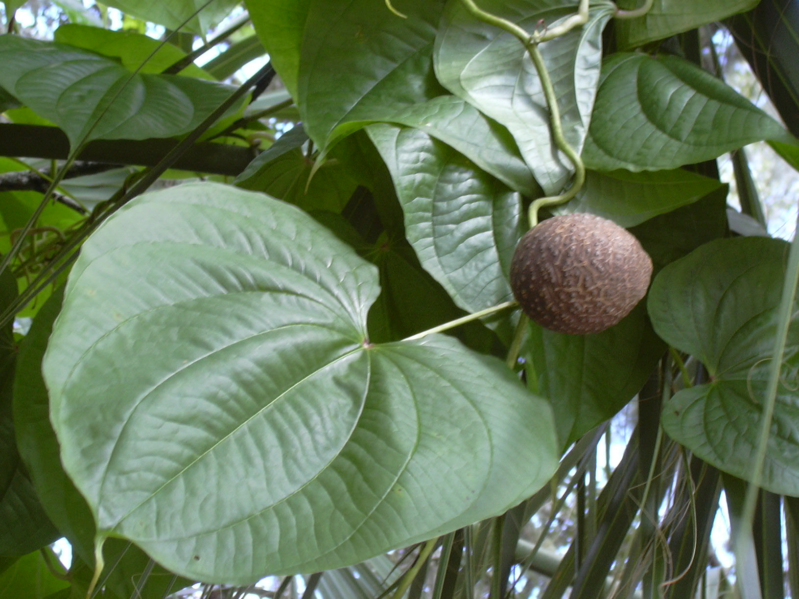 Dioscorea bulbifera (leaf and bulb). Location: Florida, Sarasota